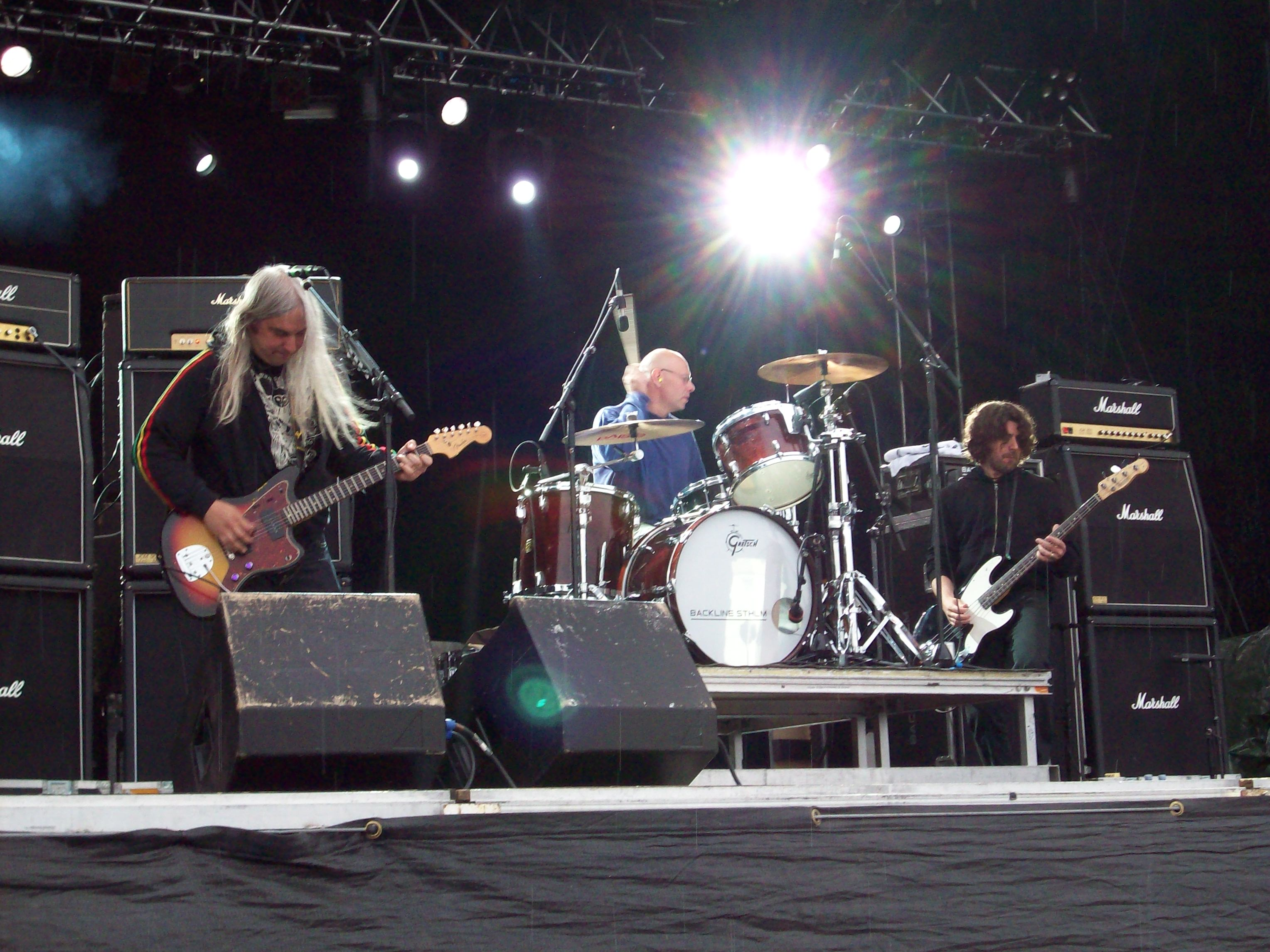 Dinosaur Jr. at the festival Where The Action Is in Stockholm, Sweden.